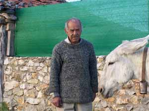 Man